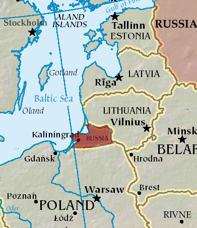 Kaliningrad: Location Map of Kaliningrad and the surrounding area.